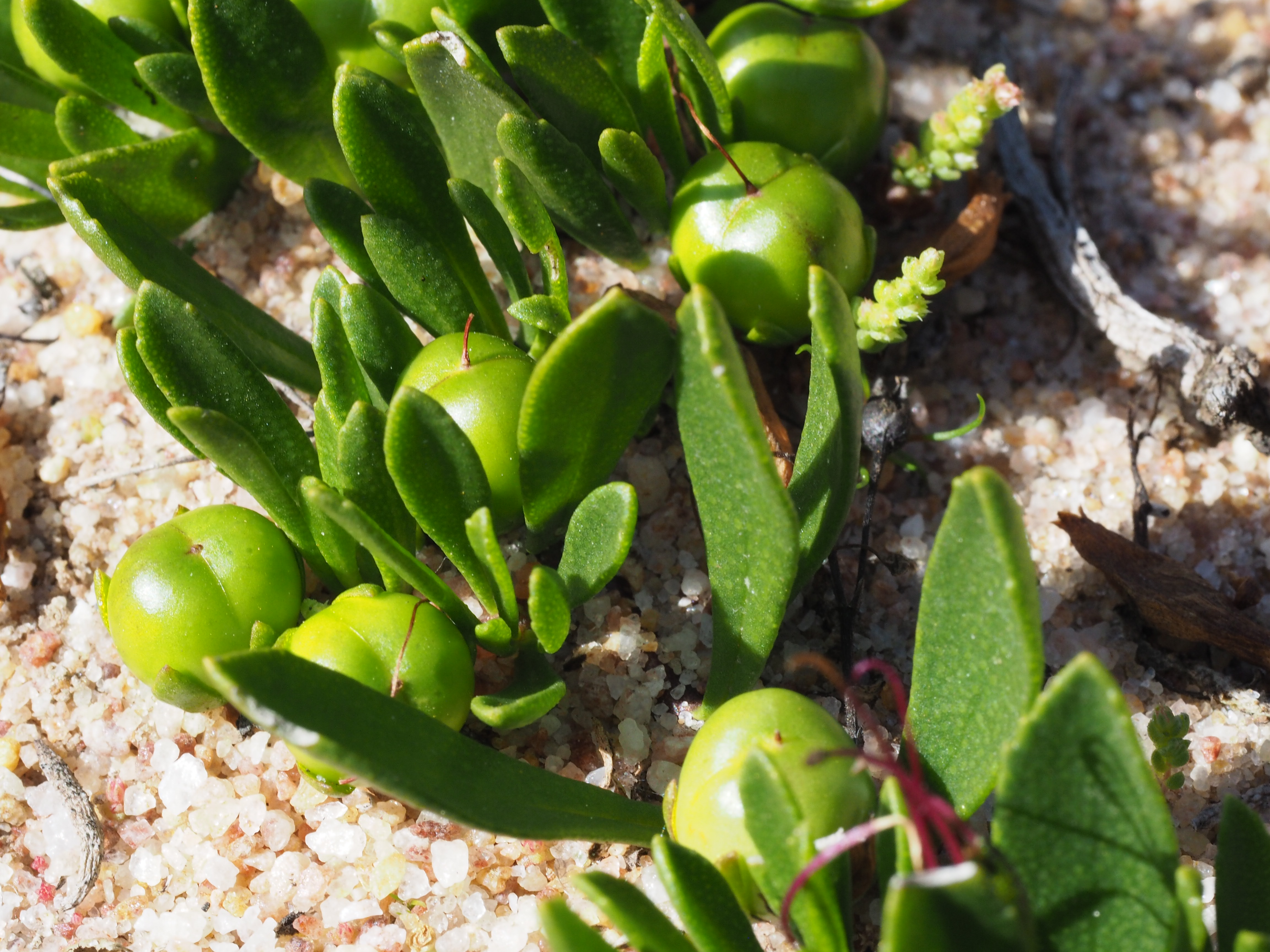 Eremophila serpens growing near Hewson Road in the Lake King Nature Reserve